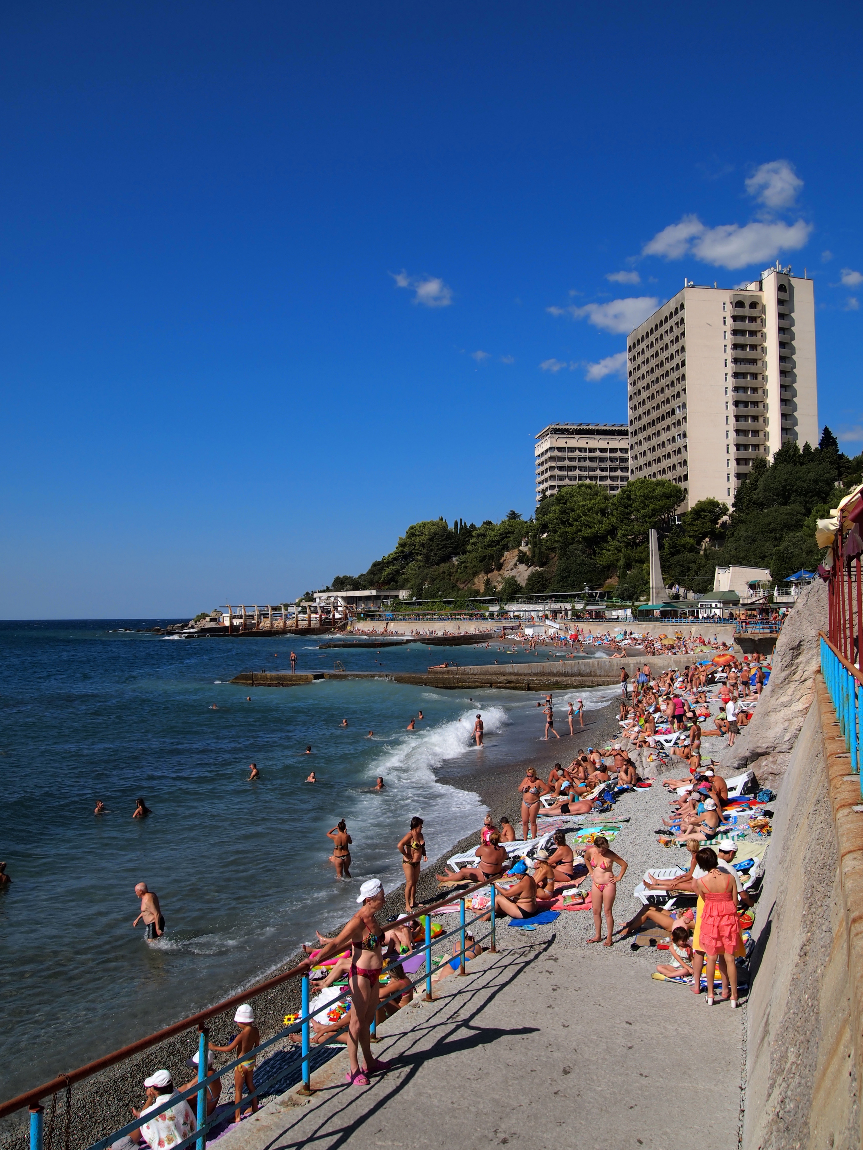 Beach in Koreiz townlet in Crimean peninsula, Ukraine. This photograph was taken with an Olympus E-PL1